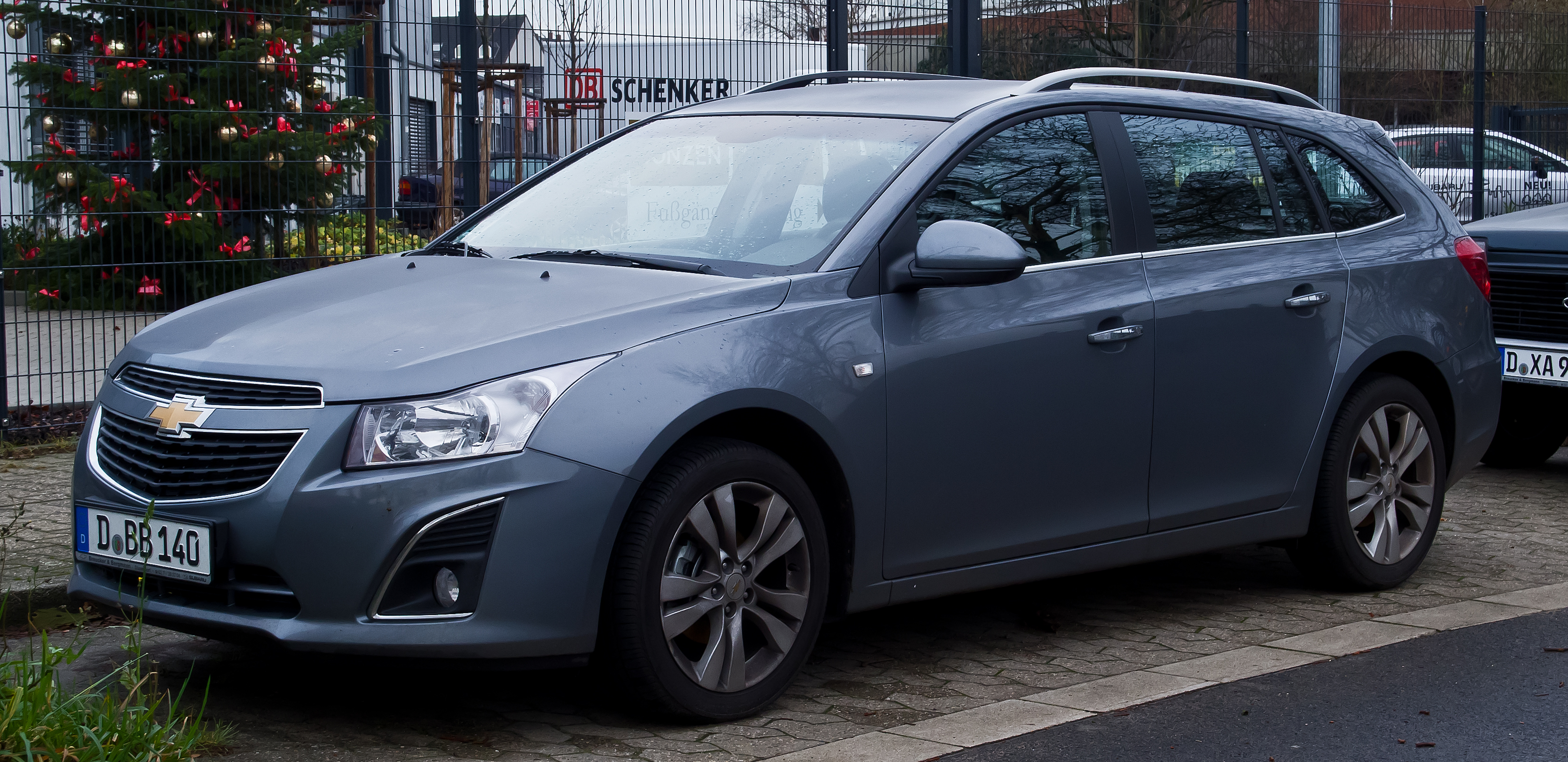 Chevrolet Cruze Station Wagon LTZ+ (Facelift)